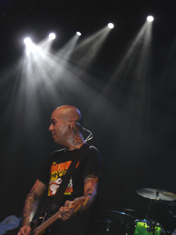 Shane Gallagher playing guitar